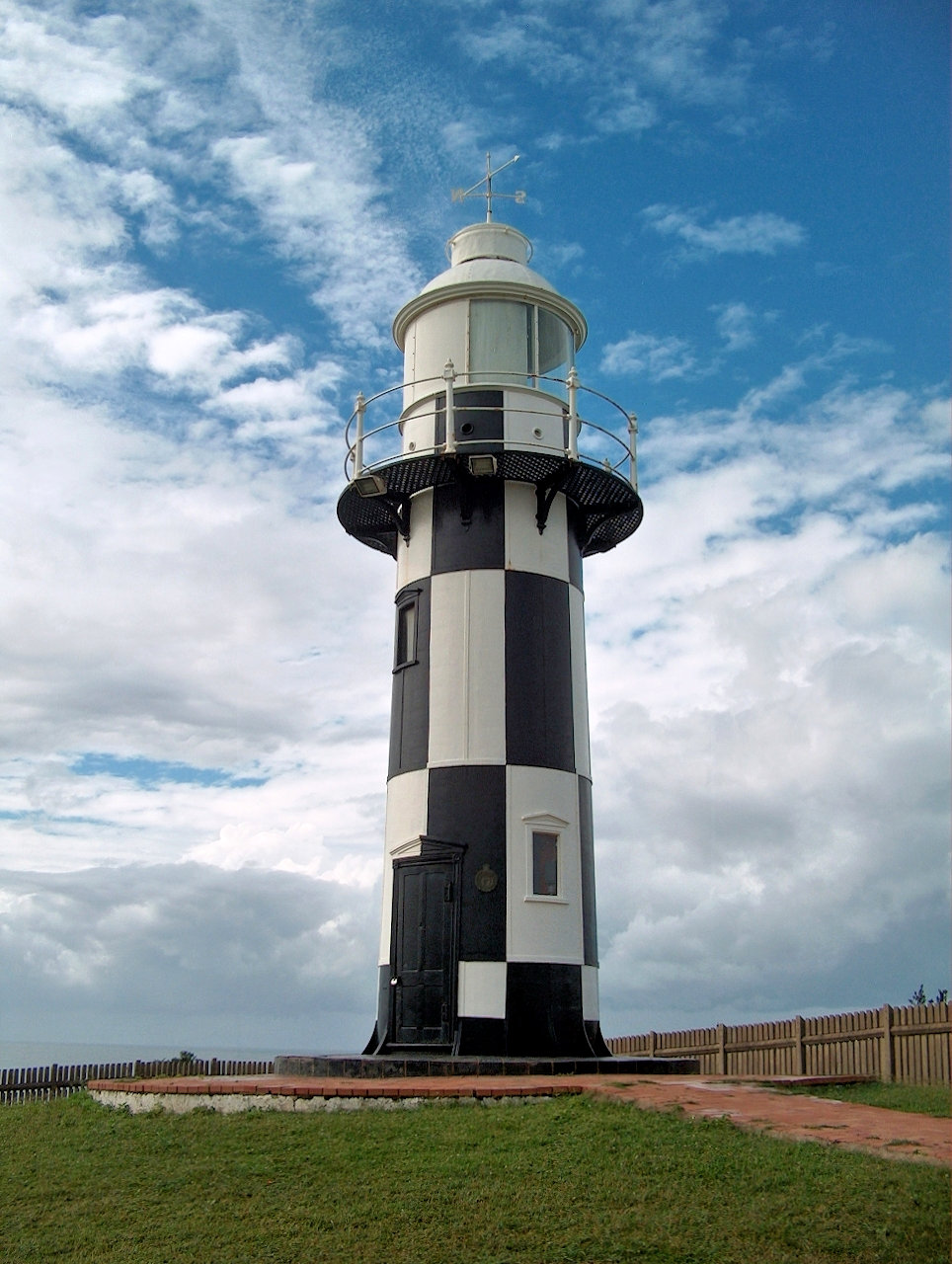 The lighthouse is situated at the mouth of the Umzimkulu River on the KwaZulu-Natal South Coast. An 8 meter circular cast iron tower, in use since 1905.